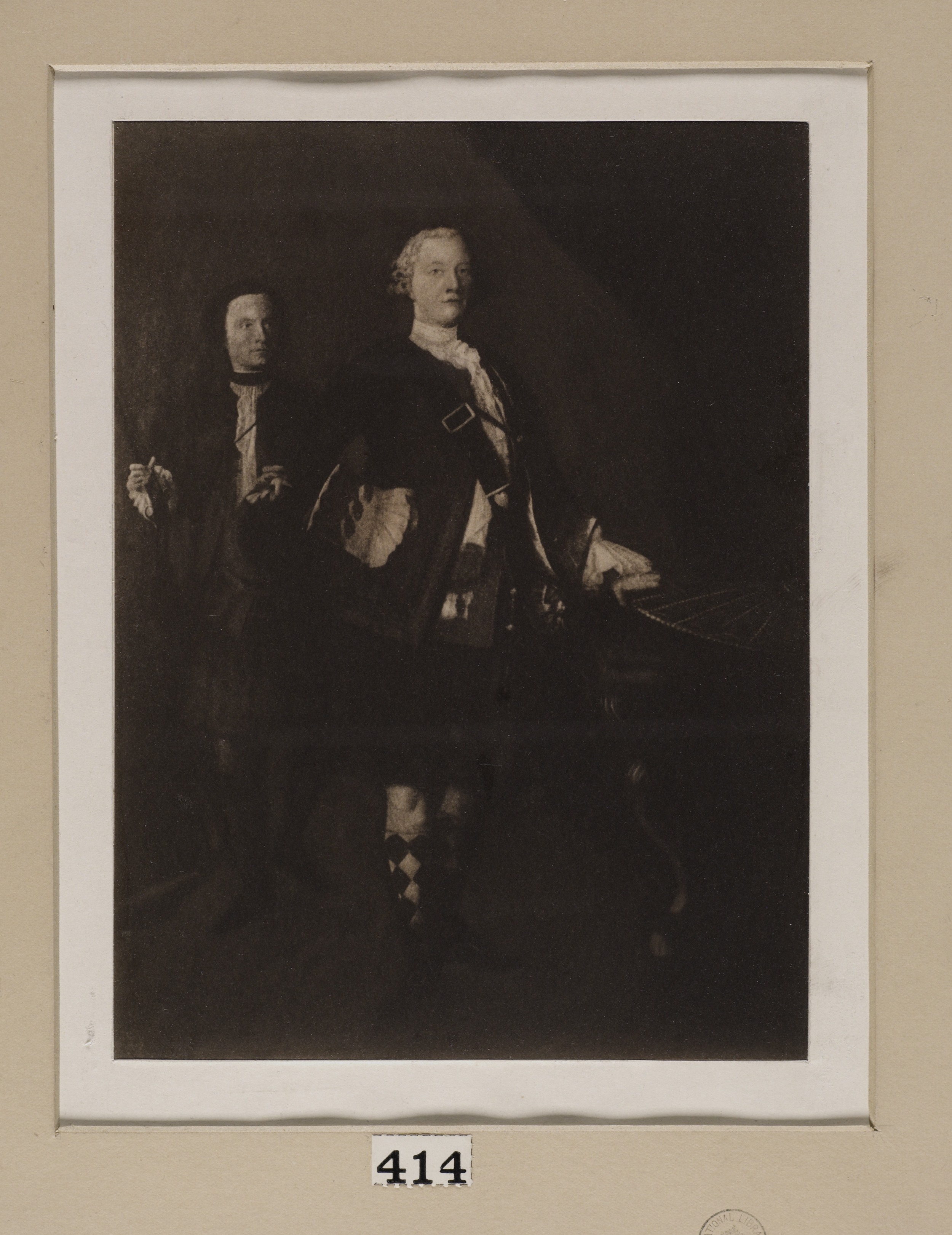 Portrait of Colonel Alistair MACDONNELL of Glengarry (1725- 1761) Portrait of Alistair Macdonell, standing in kilt, with hand resting on table. A shorter man with dark hair to his left, unnamed, holding a gun/sword